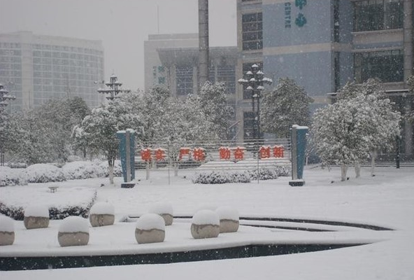 scenery 8